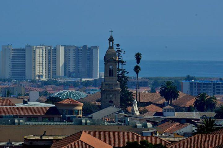 Vista de La Serena centro